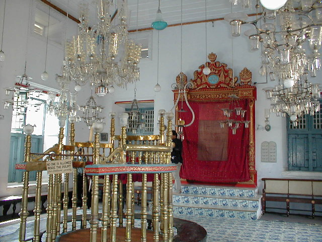 There aren't enough people left for a minyan, but the synagogue is still maintained for historical purposes. 03 February 2001